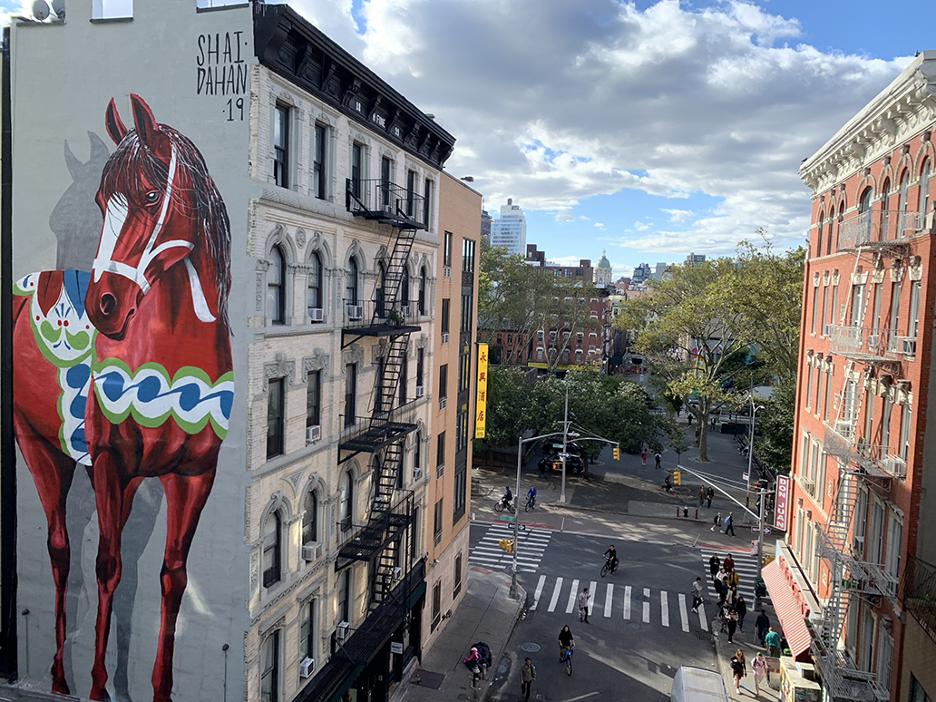 The world's largest Dalecarlian horse painting, painted by Shai Dahan in New York City 2019.